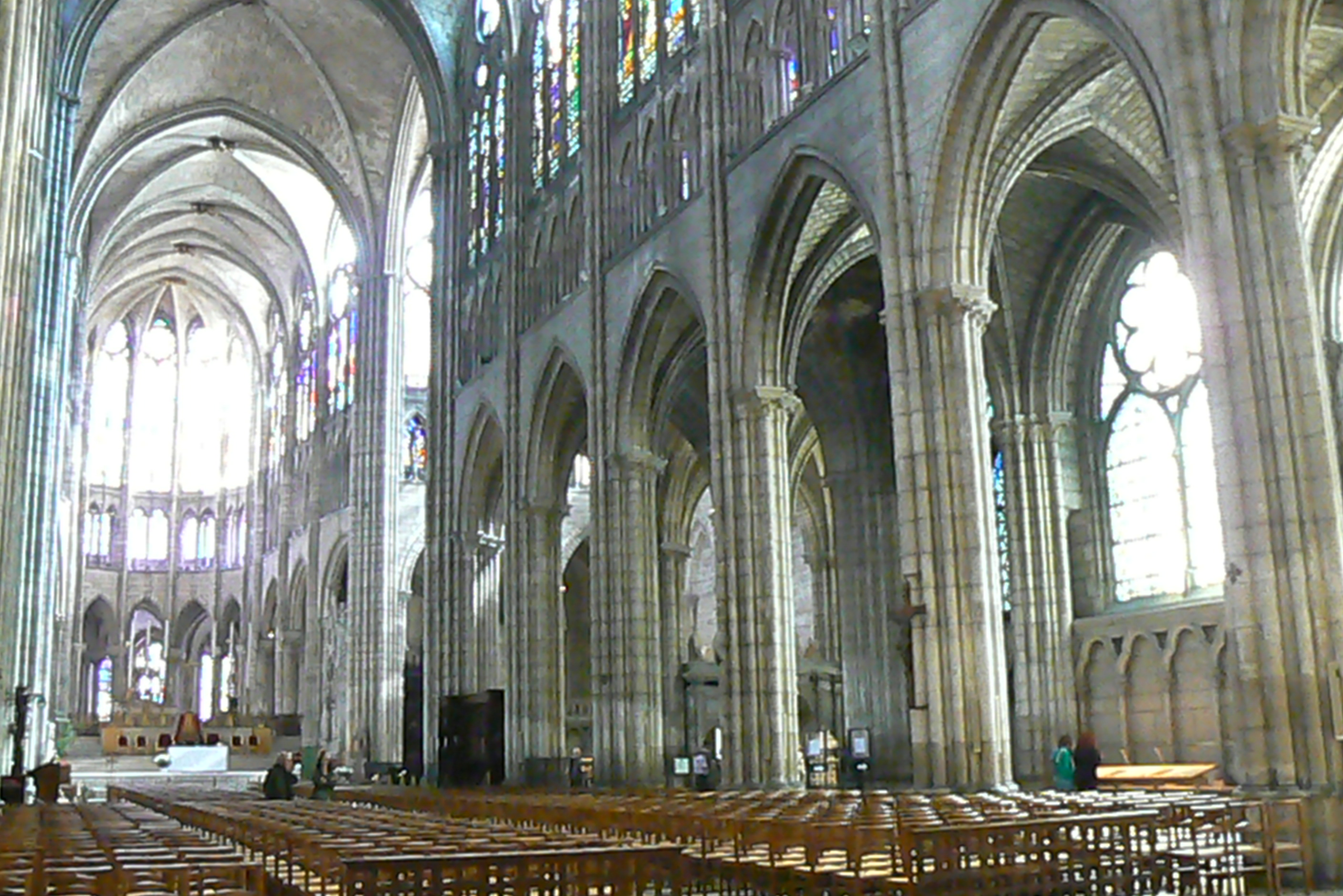 Basilica of Saint Denis, Paris, interior